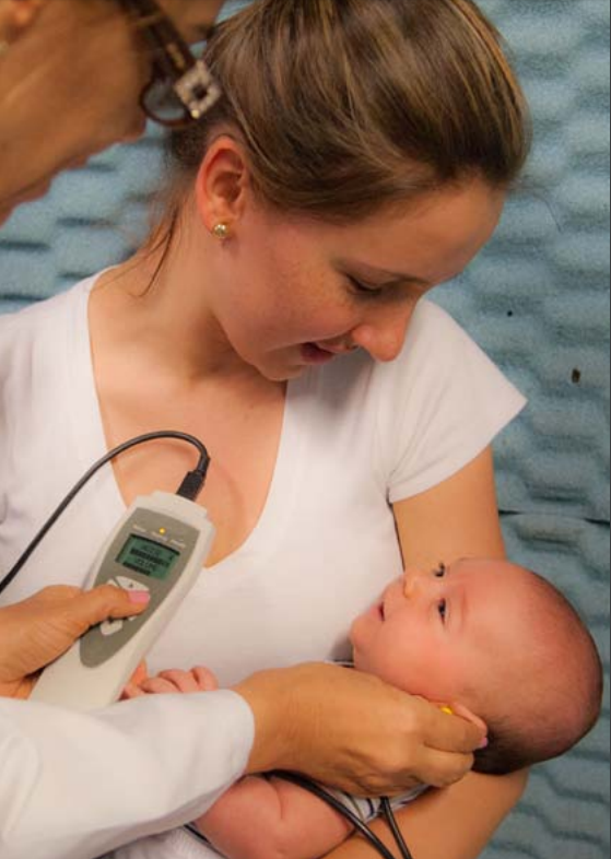 Emissões otoacústicas por estímulo transiente.